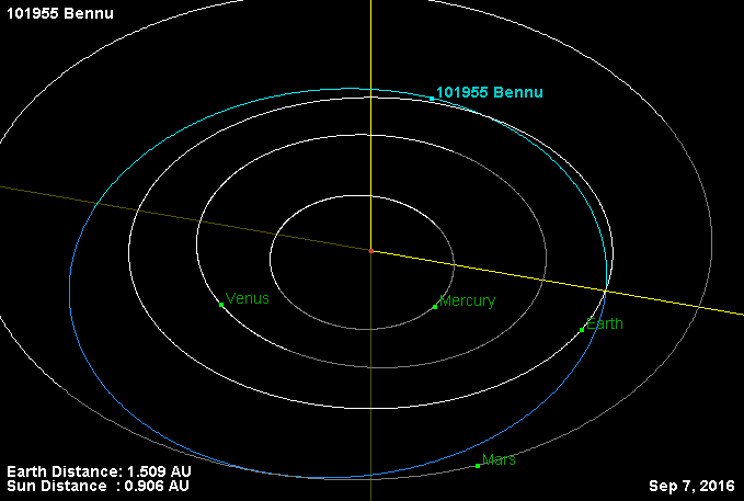 The orbits of asteroid 101955 Bennu and the three inner planets, around the sun.